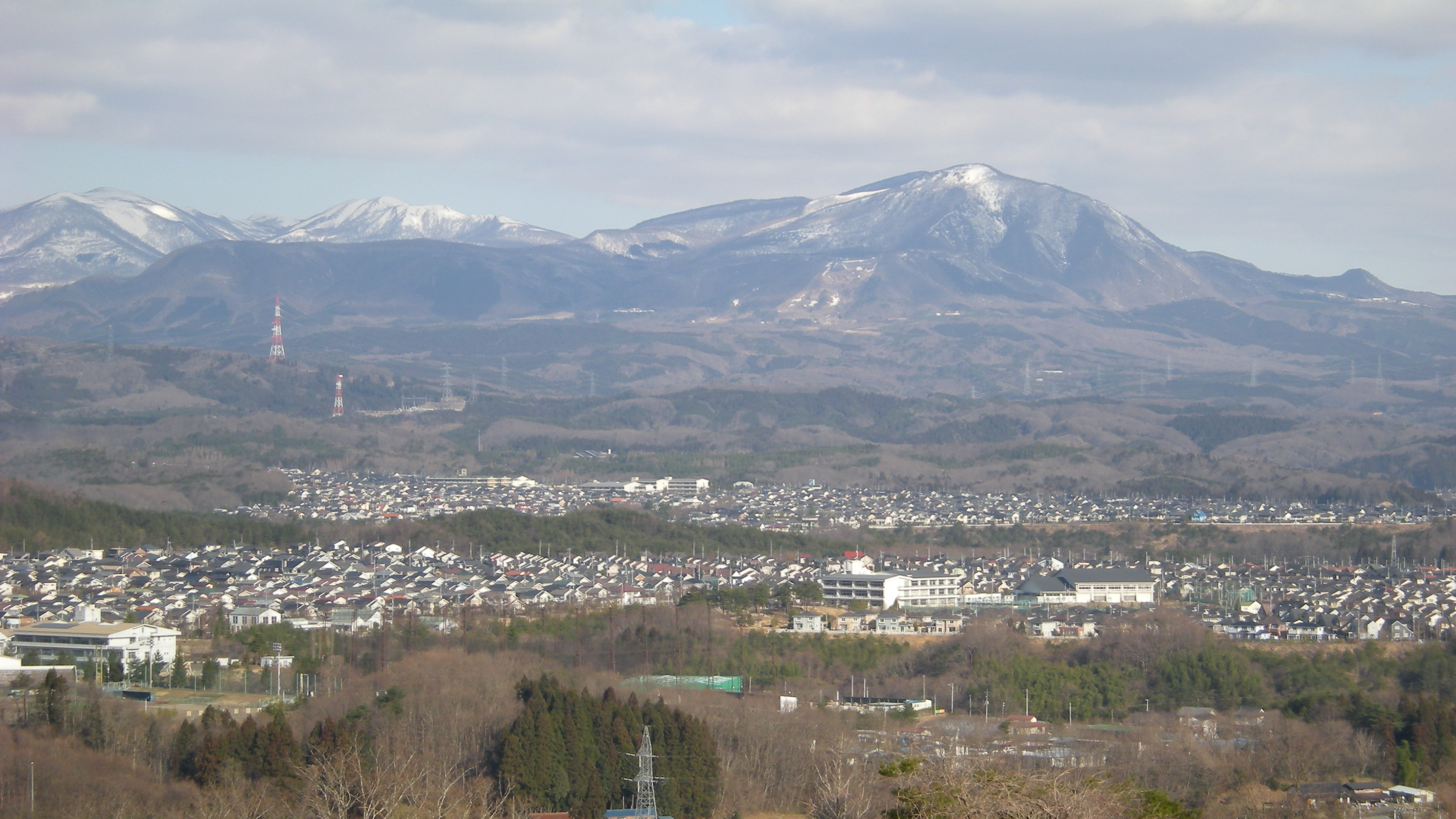 Mt. Izumigatake in Sendai city, Miyagi, Japan. Taken from Nishi-nakayamadaira district.